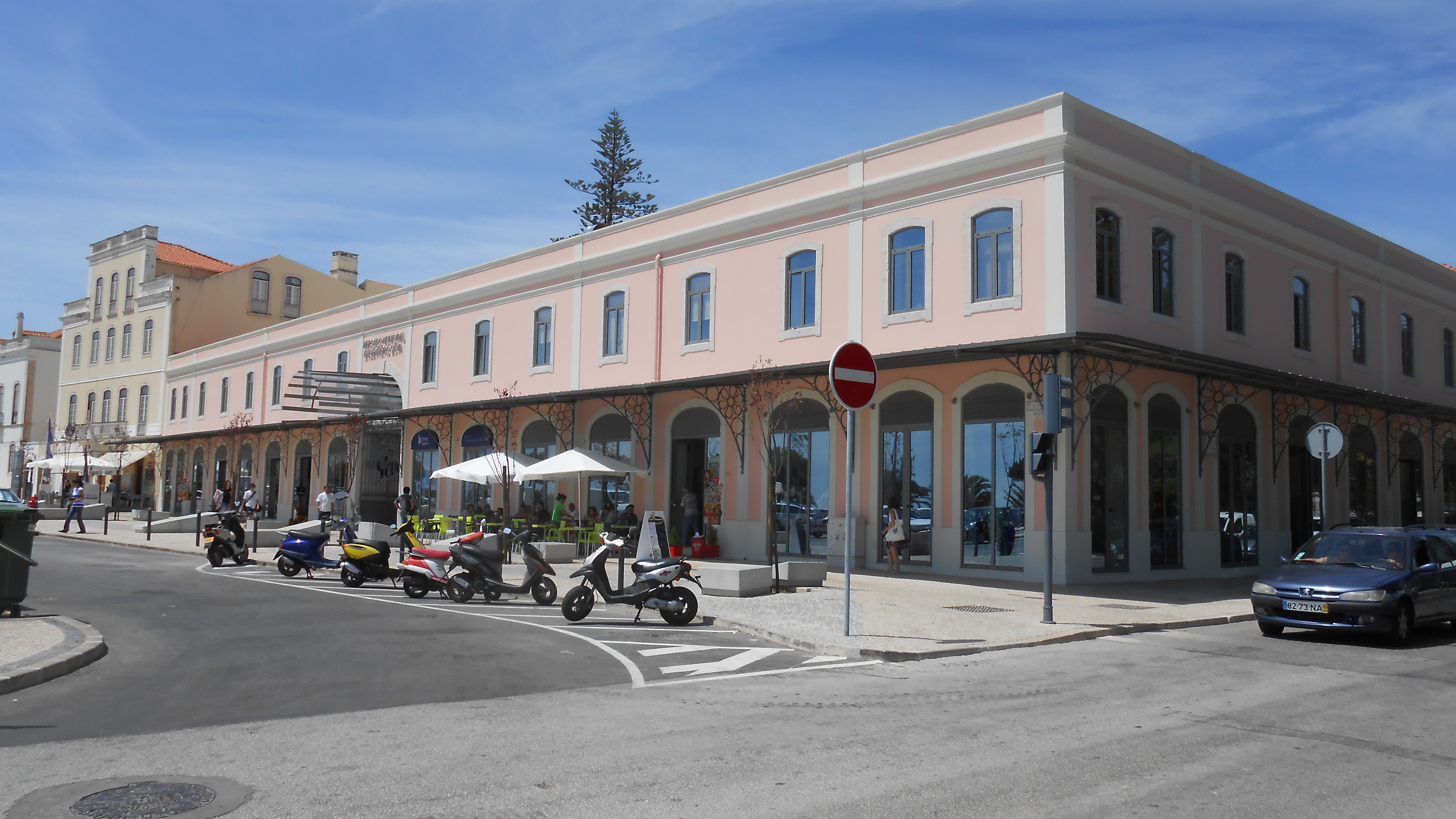 The market hall in Figueira da Foz, district of Coimbra, Portugal (Front view)